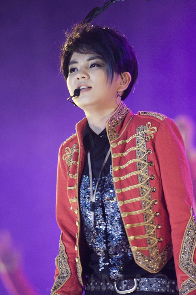 Ella (from S.H.E) performing at Stadium Merdeka in Kuala Lumpur, Malaysia on December 1, 2007 for S.H.E's Perfect 3 Tour.